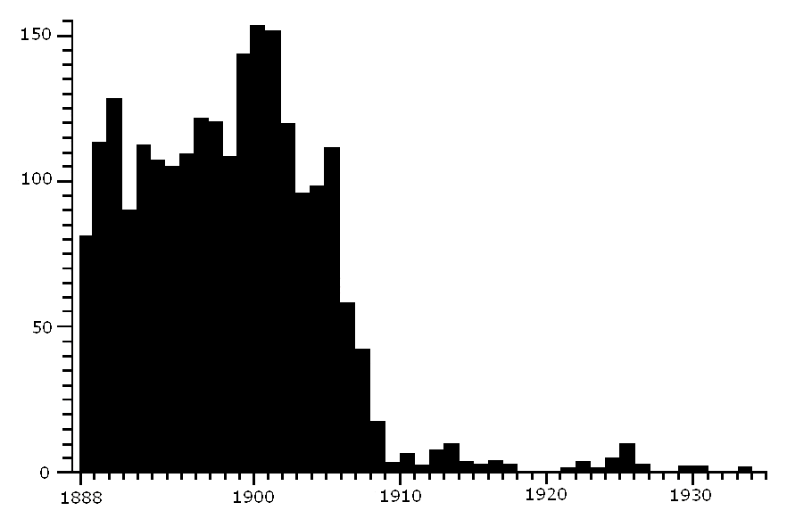 Population decrease of the thylacine; documentated on the basis of killed and captured thylacines.